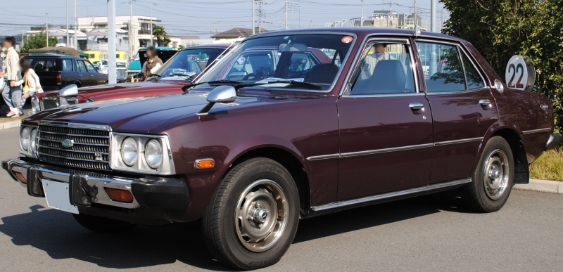 Toyota Corona 2000GT.